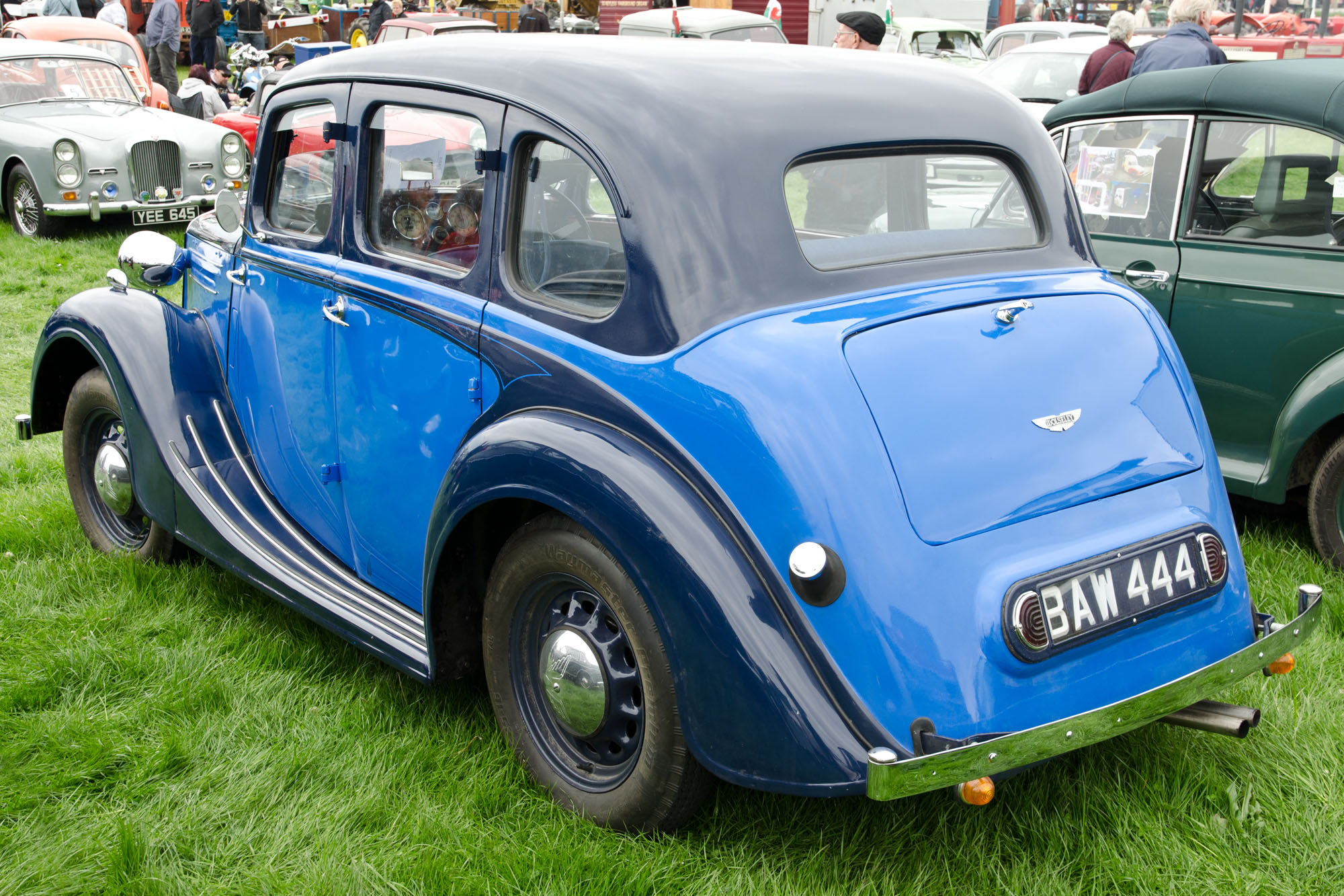 1939 Wolseley Ten (DVLA) first registered 30 June 1939, 1140cc Llandudno Transport Festival 03/05/2014